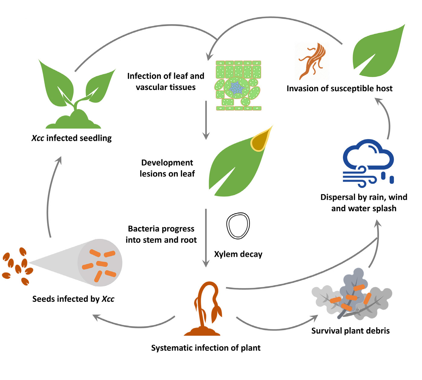 Spread, infection and survival in the environment of Xanthomonas campestris pv. campestris that causes black rot.